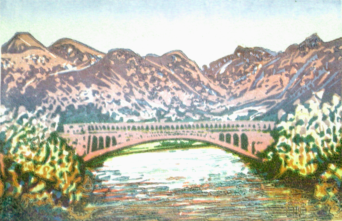 Linocut - all 3 plates together.